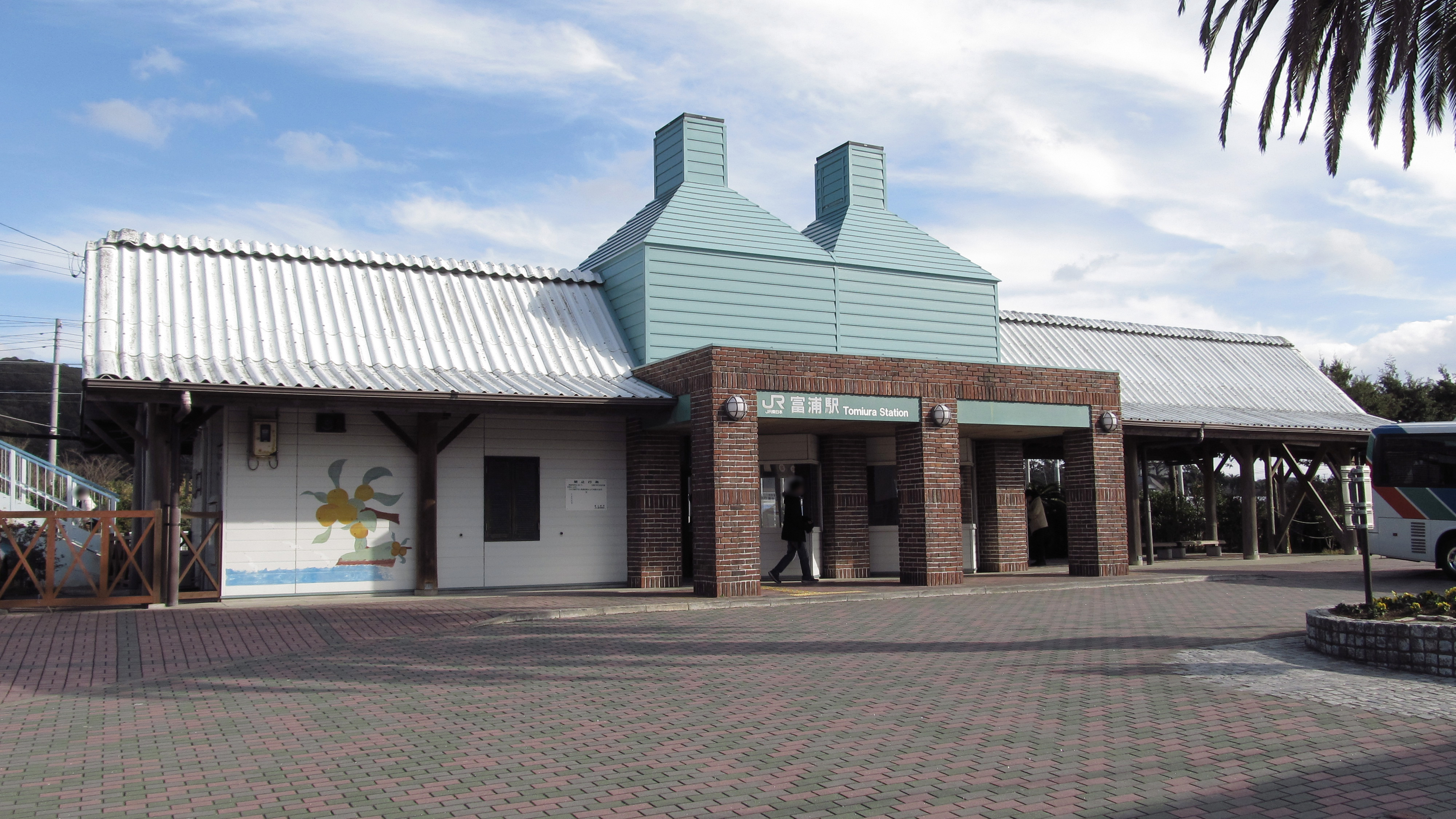 The building of Tomiura Station on the Uchibō Line in Minamibōsō city, Chiba prefecture, Japan